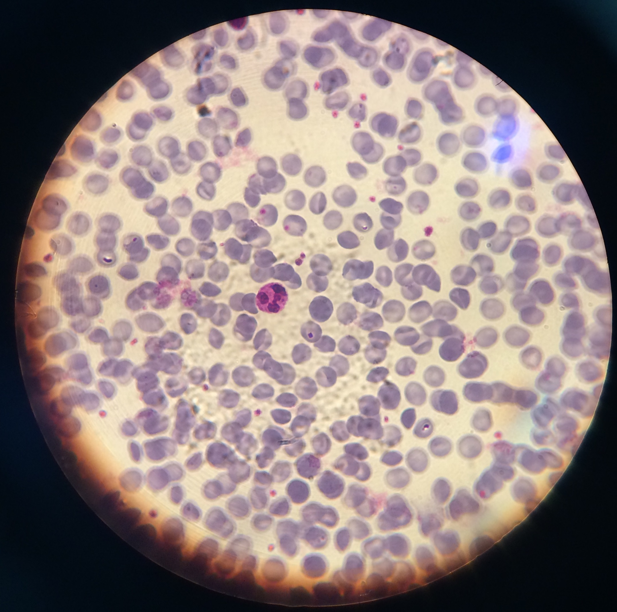 a Neutrophil stained by Gimsa method in laboratory of Islamic Azad University of Arak.